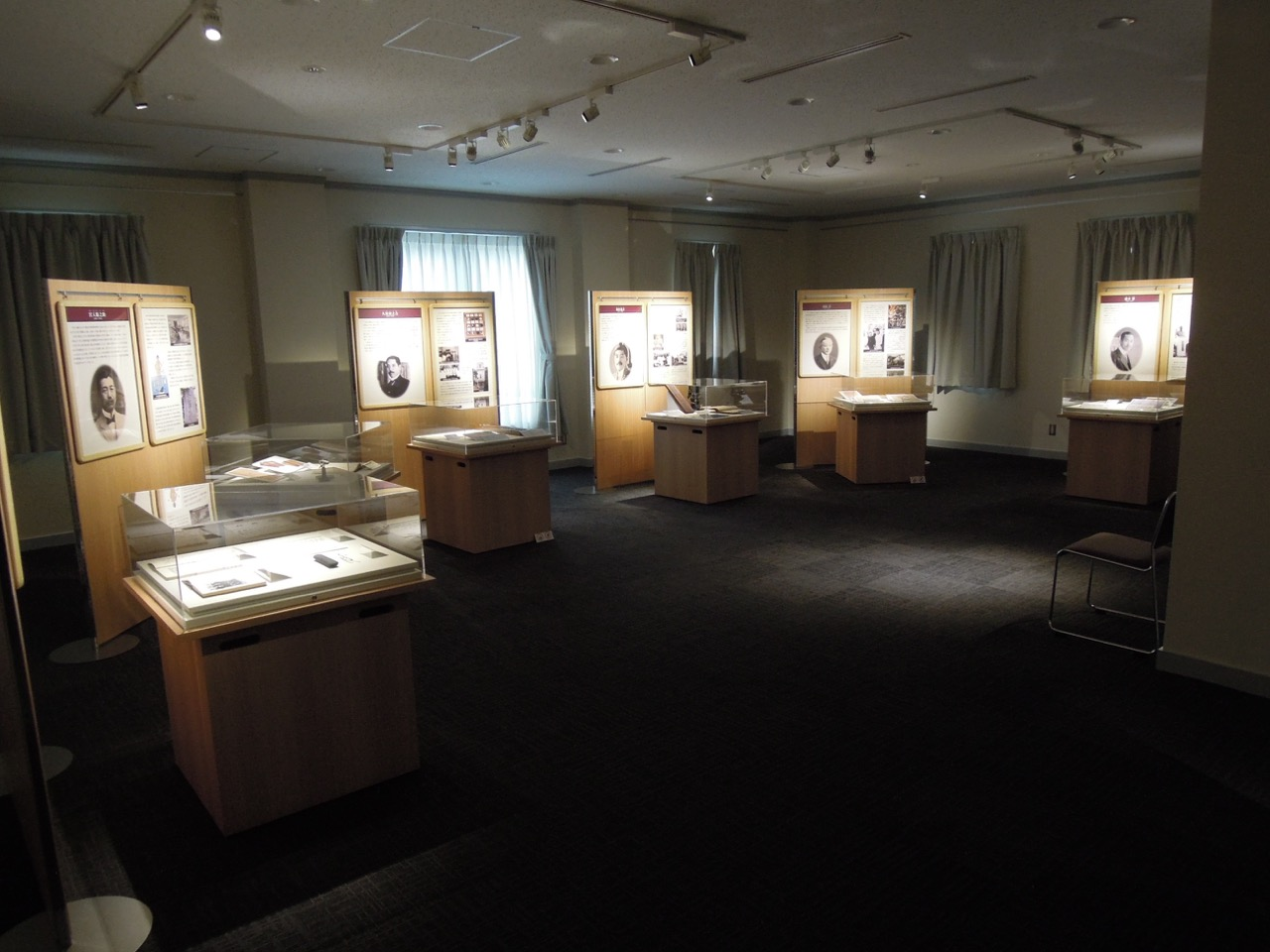 Kyushu University Medical History Museum (Fukuoka-City, Japan): First Floor